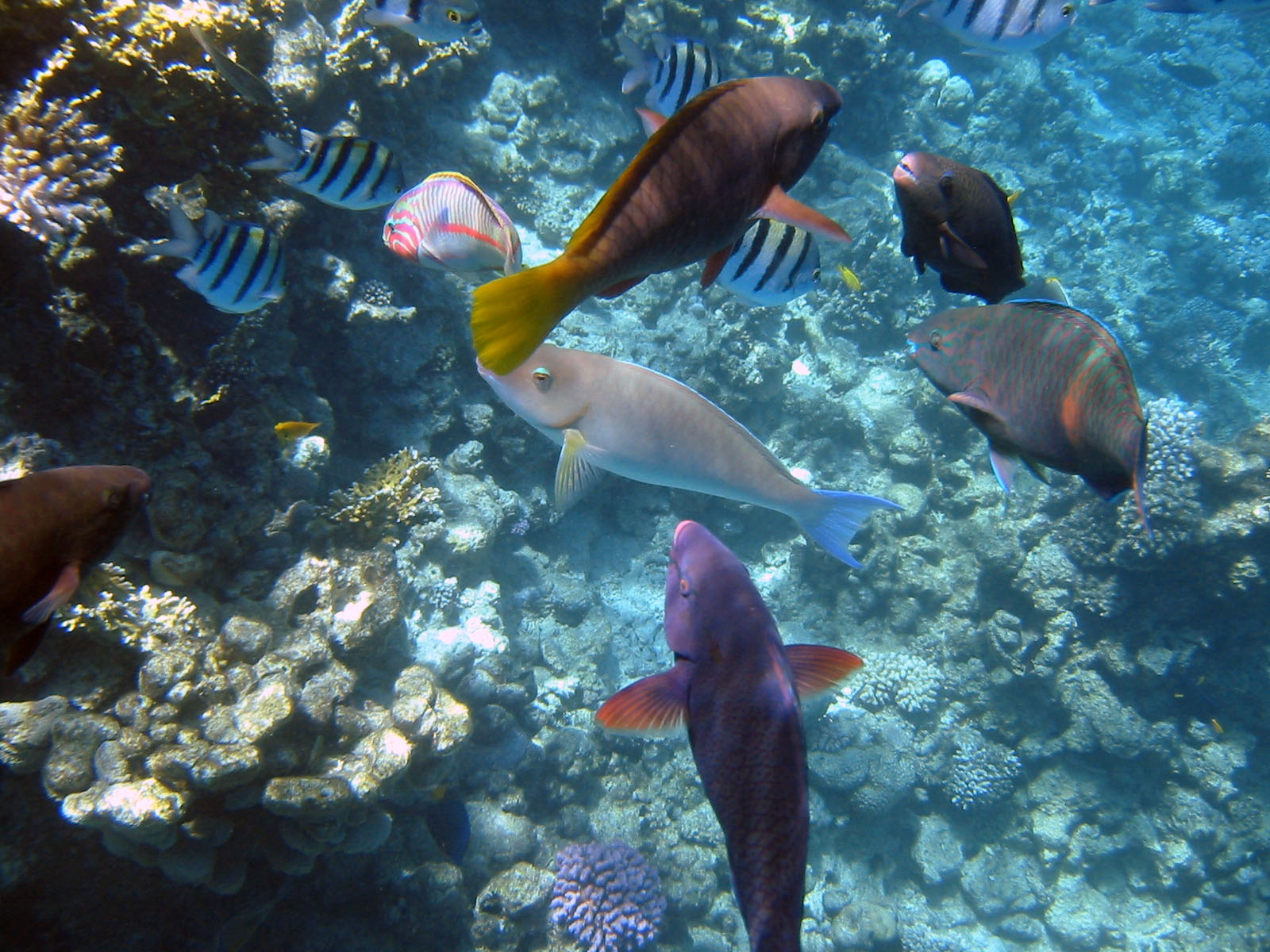 Coral reef off Sharm el-Sheikh & Naama Bay, Red Sea